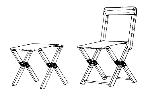 line art drawing of camp stool and chair.